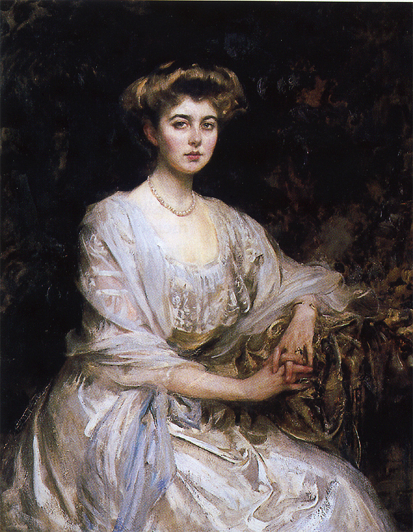 Princess Margaret "Daisy" of Connaught, later Queen consort to Gustav Adolf VI of Sweden by Sir James Jebusa Shannon.